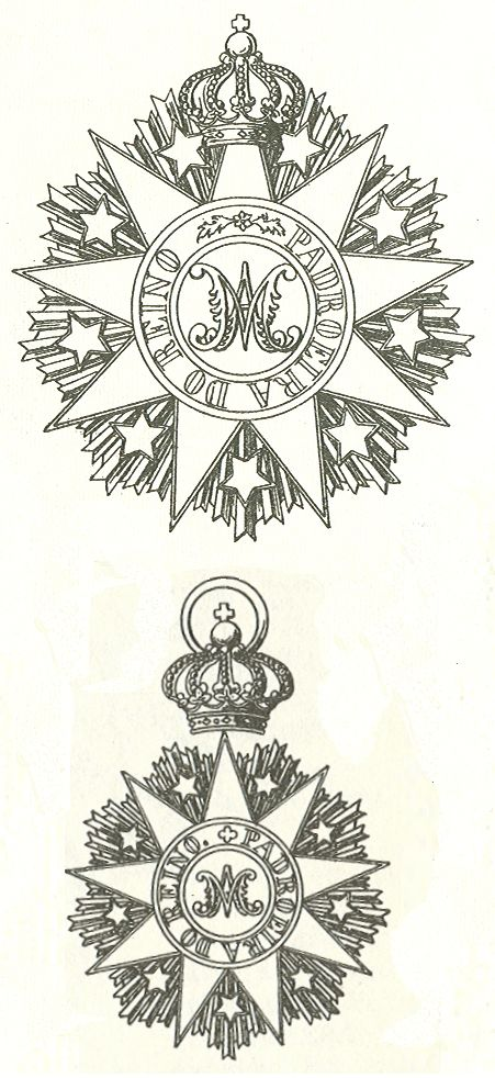 Jewel and star of the Order of Our Lady of Vicosa. Portugal